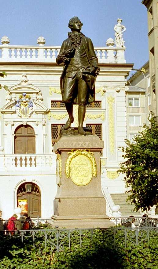 Memorial fo Johann Wolfgang von Goethe in Leipzig (sculpted by Carl Seffner)